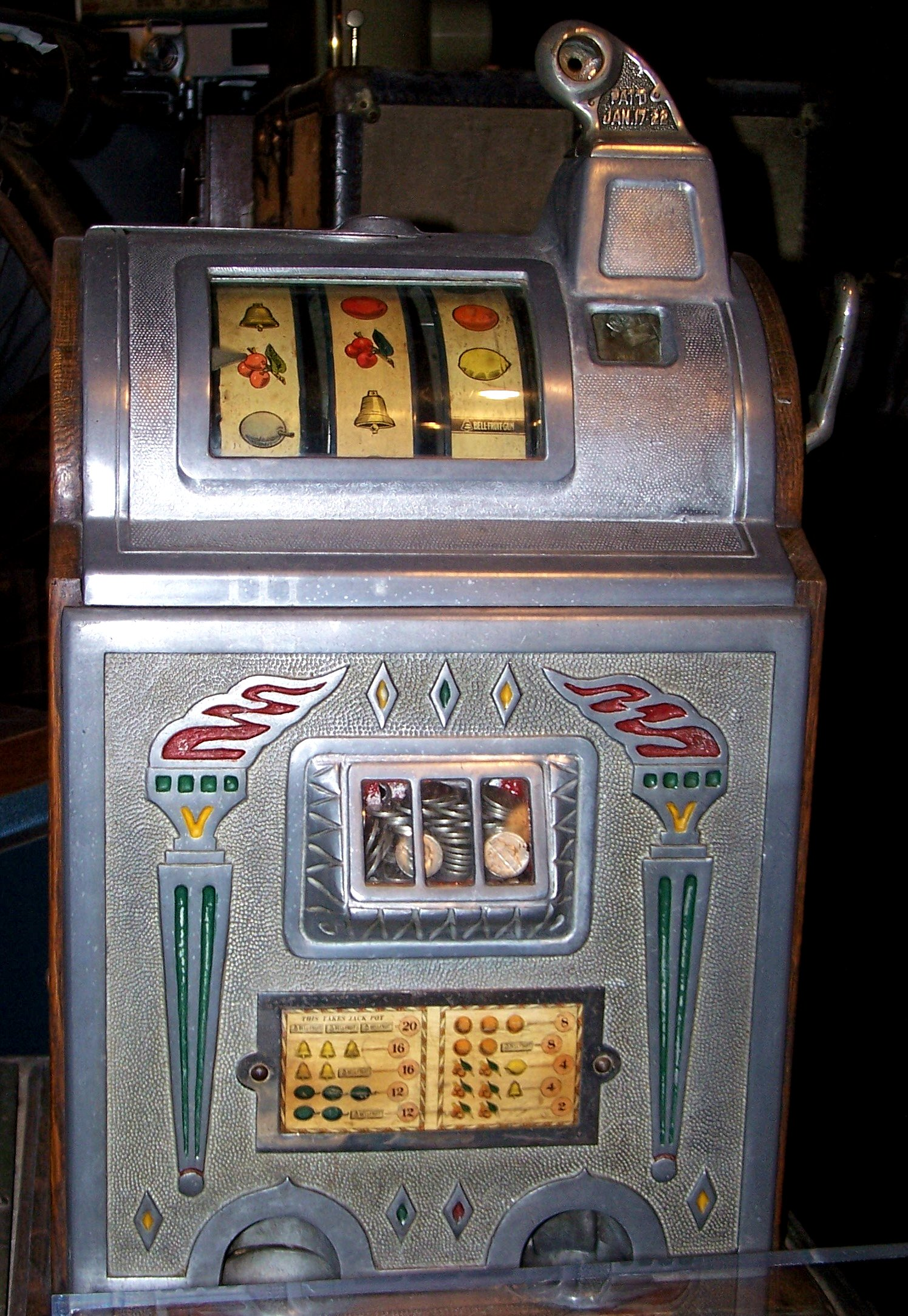 An old slot machine.